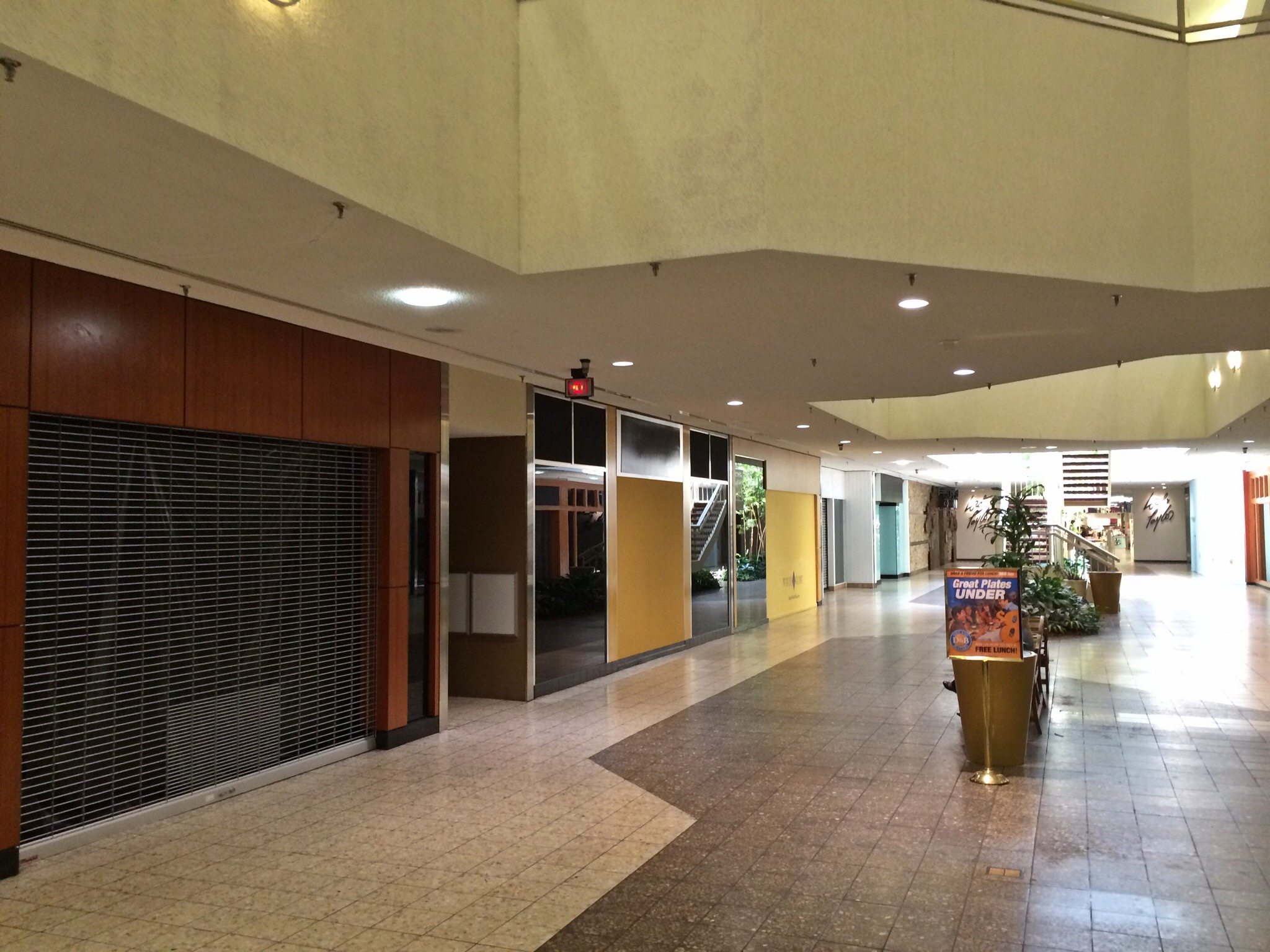 2nd Floor of White Flint Mall in June 2014.